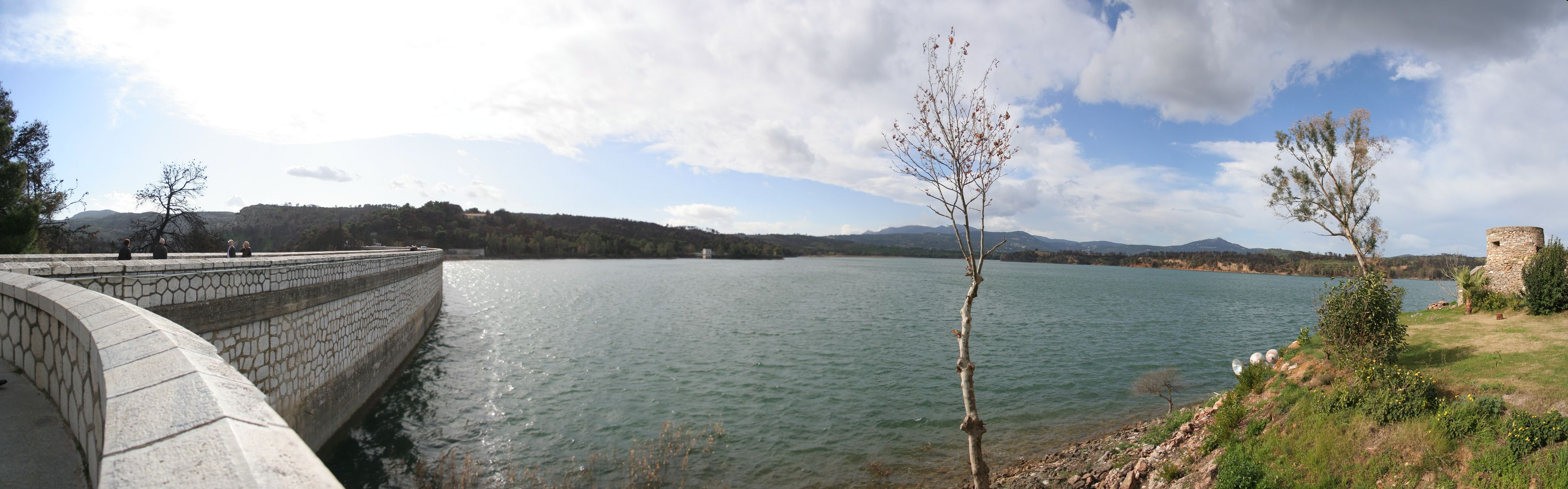 Marathon lake & dam near Athens.